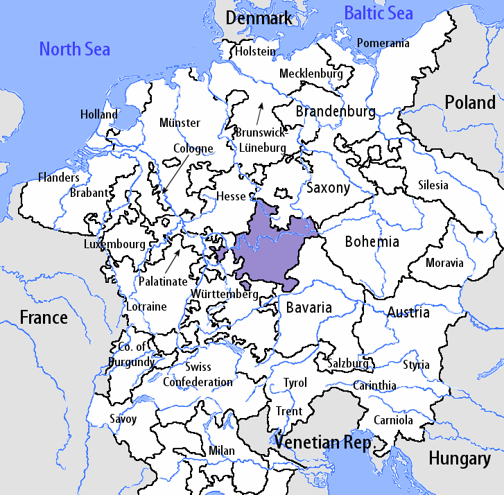 Franconian Circle